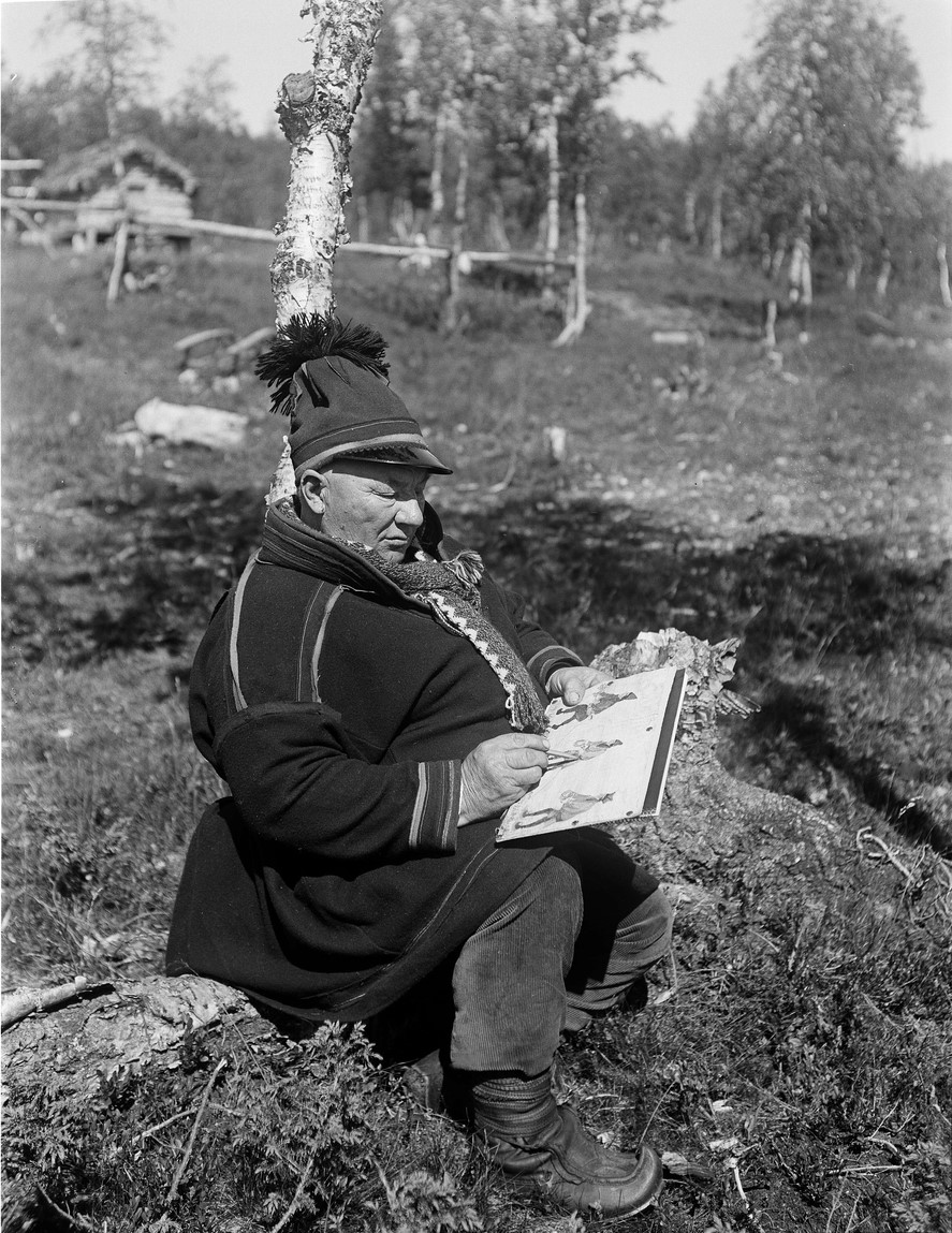 Nils Nilsson Skum, Swedish nomadic reindeer herder and artist. Sámi village of Norrkaitum.